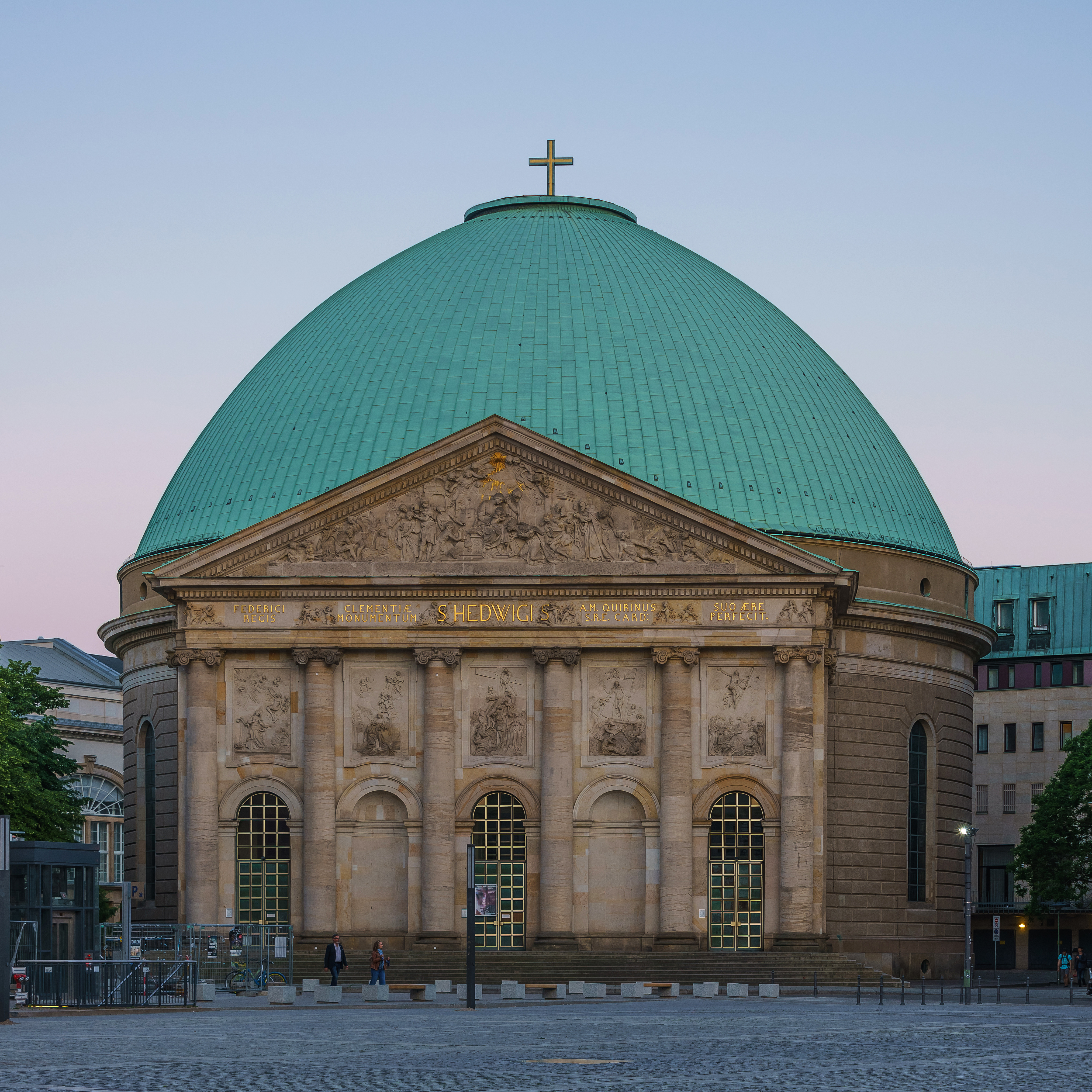 The Bebelplatz in Berlin: Church of St. Hedwig